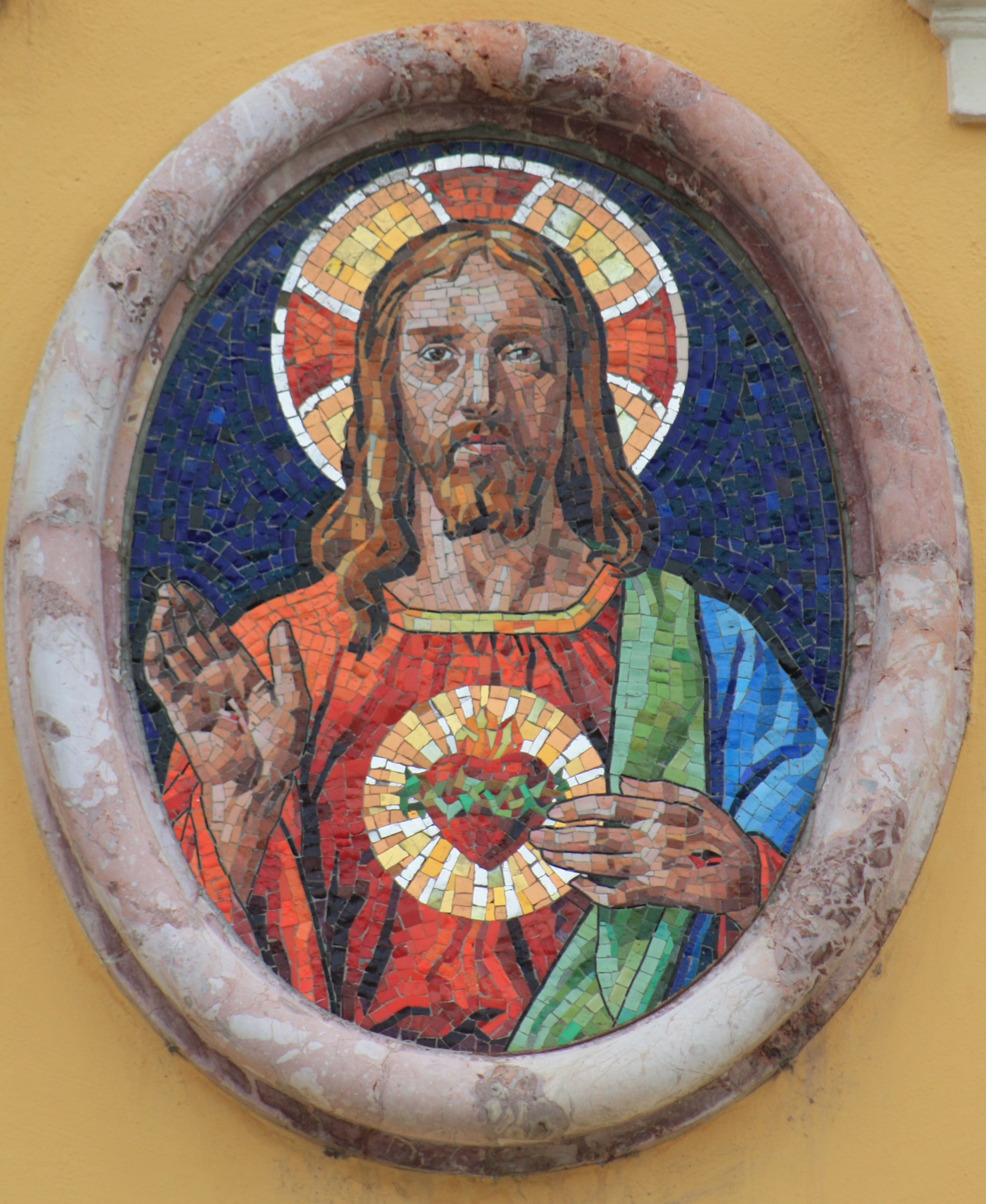 Sacred Heart Locality:Johannesplatz Community:Lienz